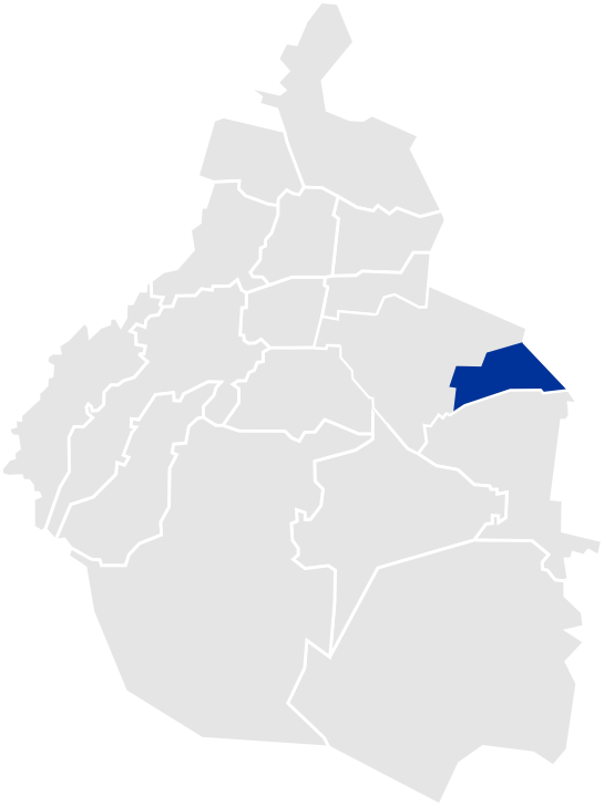 Map of the Twenysecond Federal Electoral District of the Federal District, México.